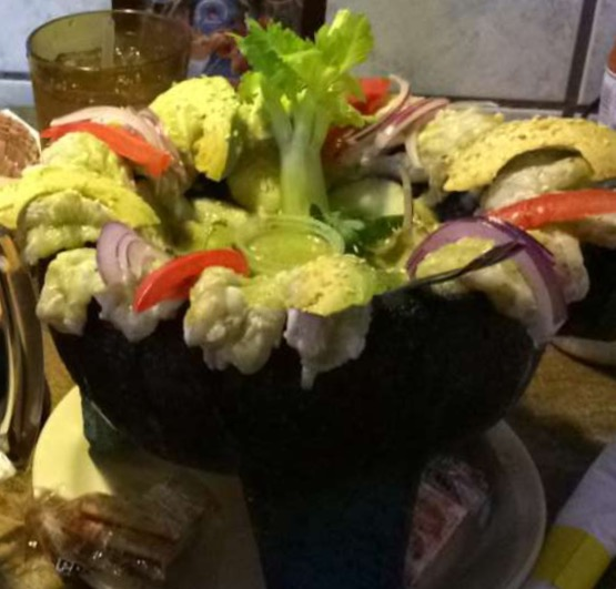 Oxnard California (Chilitos #2) 2016. Credited by Daisy Garcia